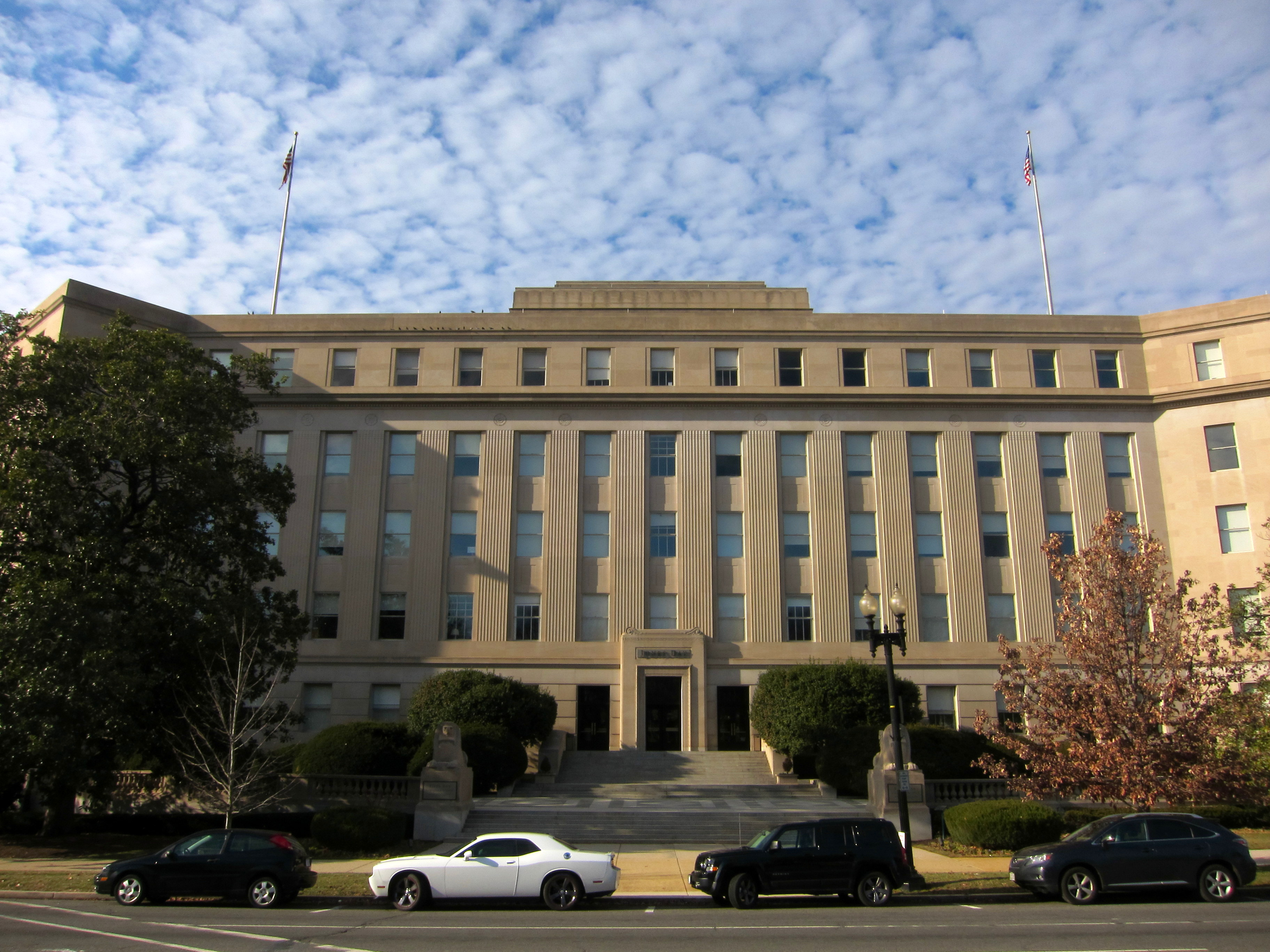 The Acacia Building located at 51 Louisiana Avenue NW in Washington, D.C. Completed in 1935 and designed by architectural firm Shreve, Lamb & Harmon, the Modernist building serves as offices for the Jones Day law firm.